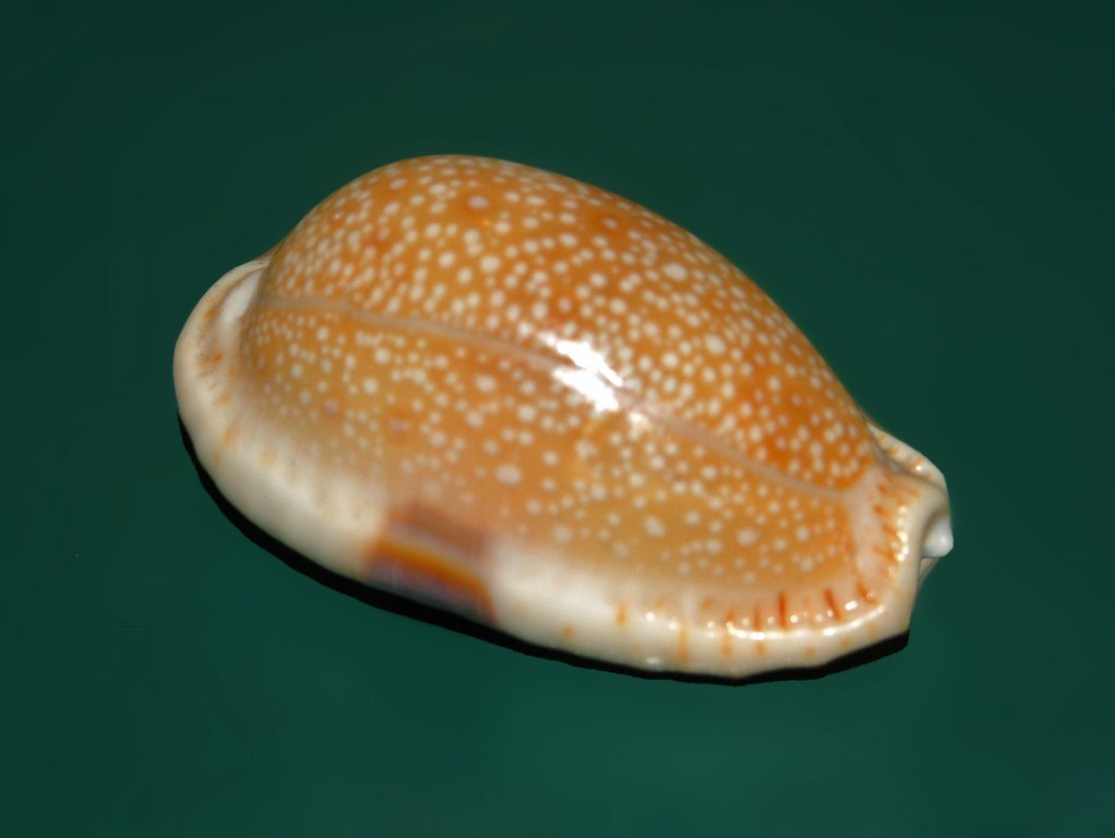 Naria erosa chlorizans f. purissima, Vredenburg, E.W., 1919 - Australia